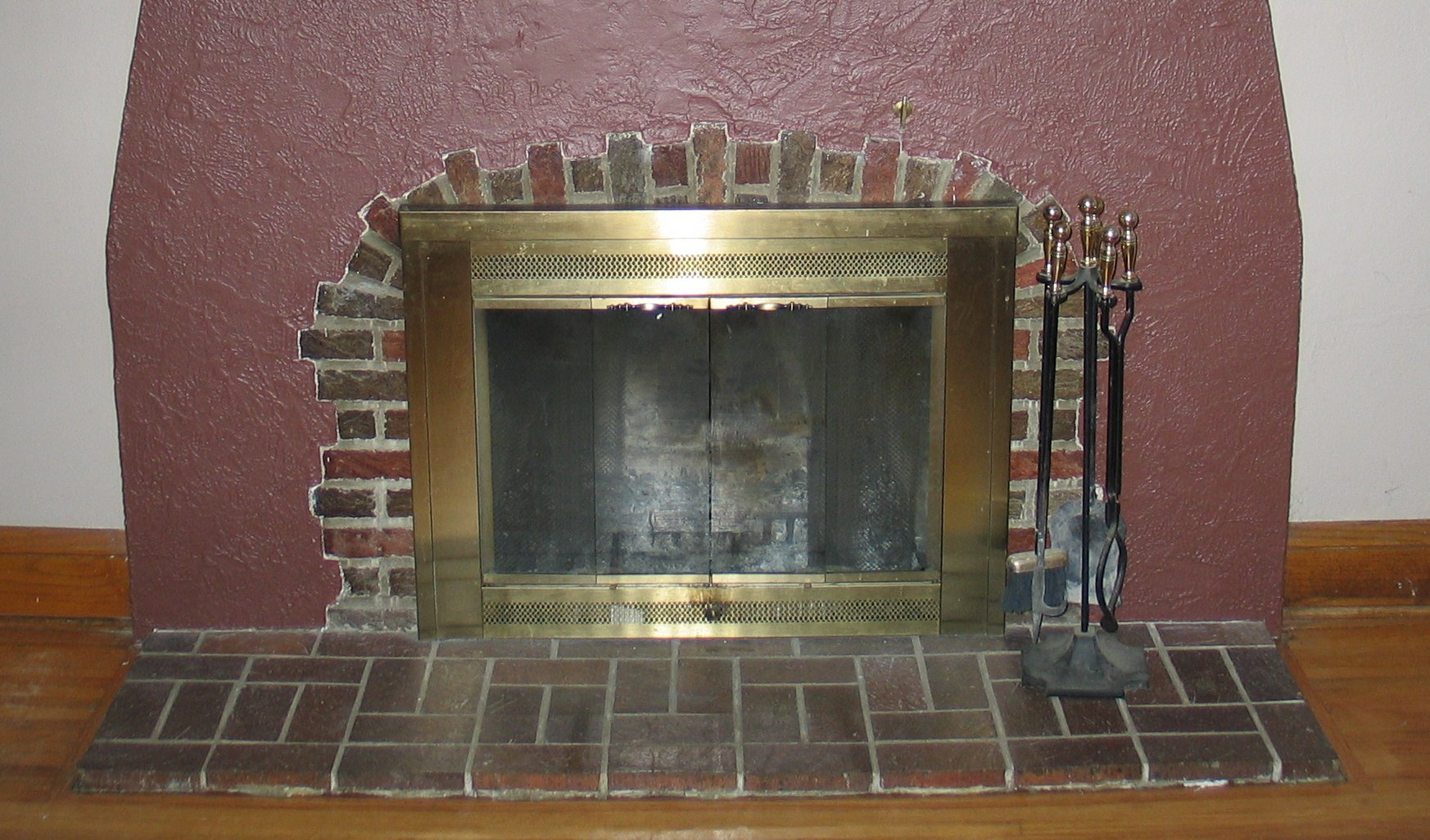 Gotta love the fireplace, nice mantle and stone work